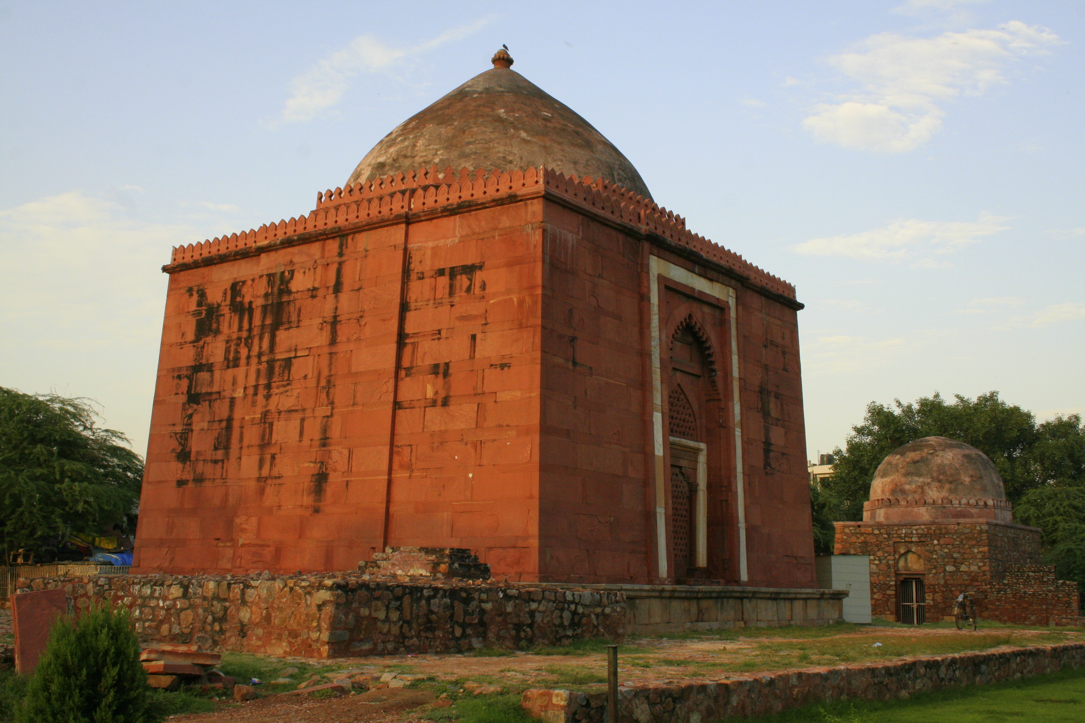 Lal Gumbad Red colored walls have given its name as Lal Gumbad. It can be approached from outer Ring Road on road leading to Malviya Nagar. Its is next to Panchsheel Rendevous. The tomb is believed to have been built in 1397 and Shaikh Kaliruuddin is buried here. There are some other structures here namely Gateway, wall mosque etc.